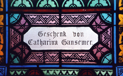 Photo by Joe Schallan, 2003.